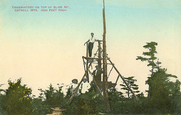 Slide Mountain tower Image is of a postcard from my collection.